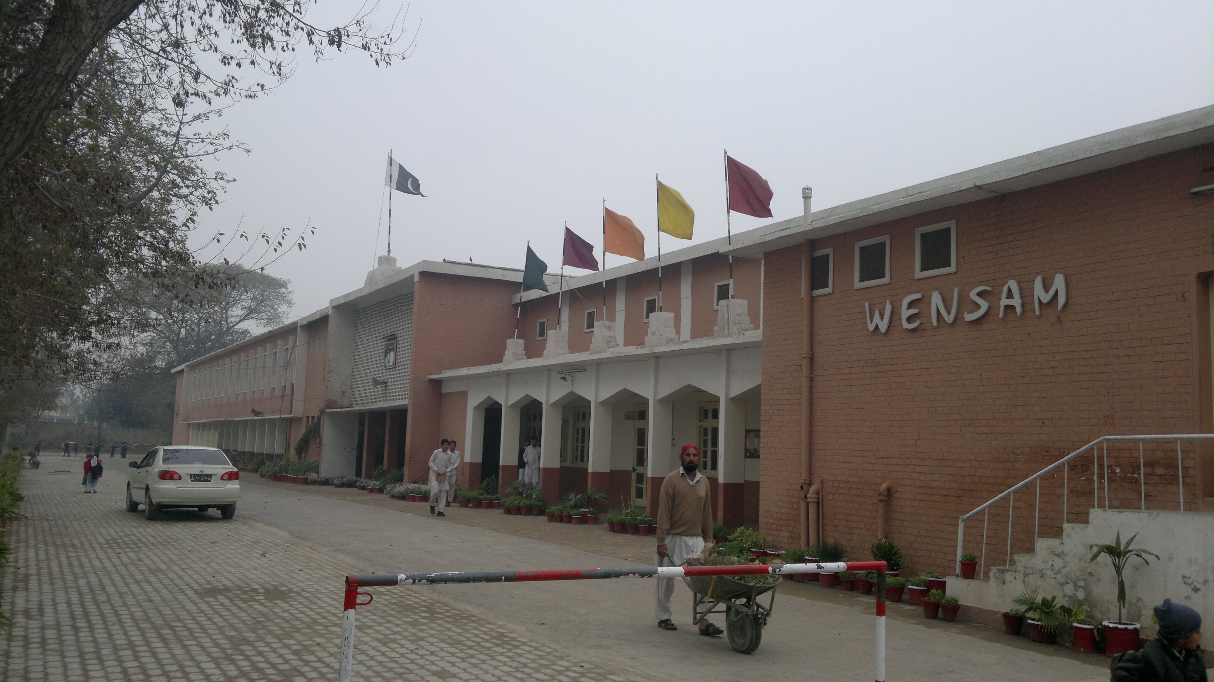 Main building front WENSAM College